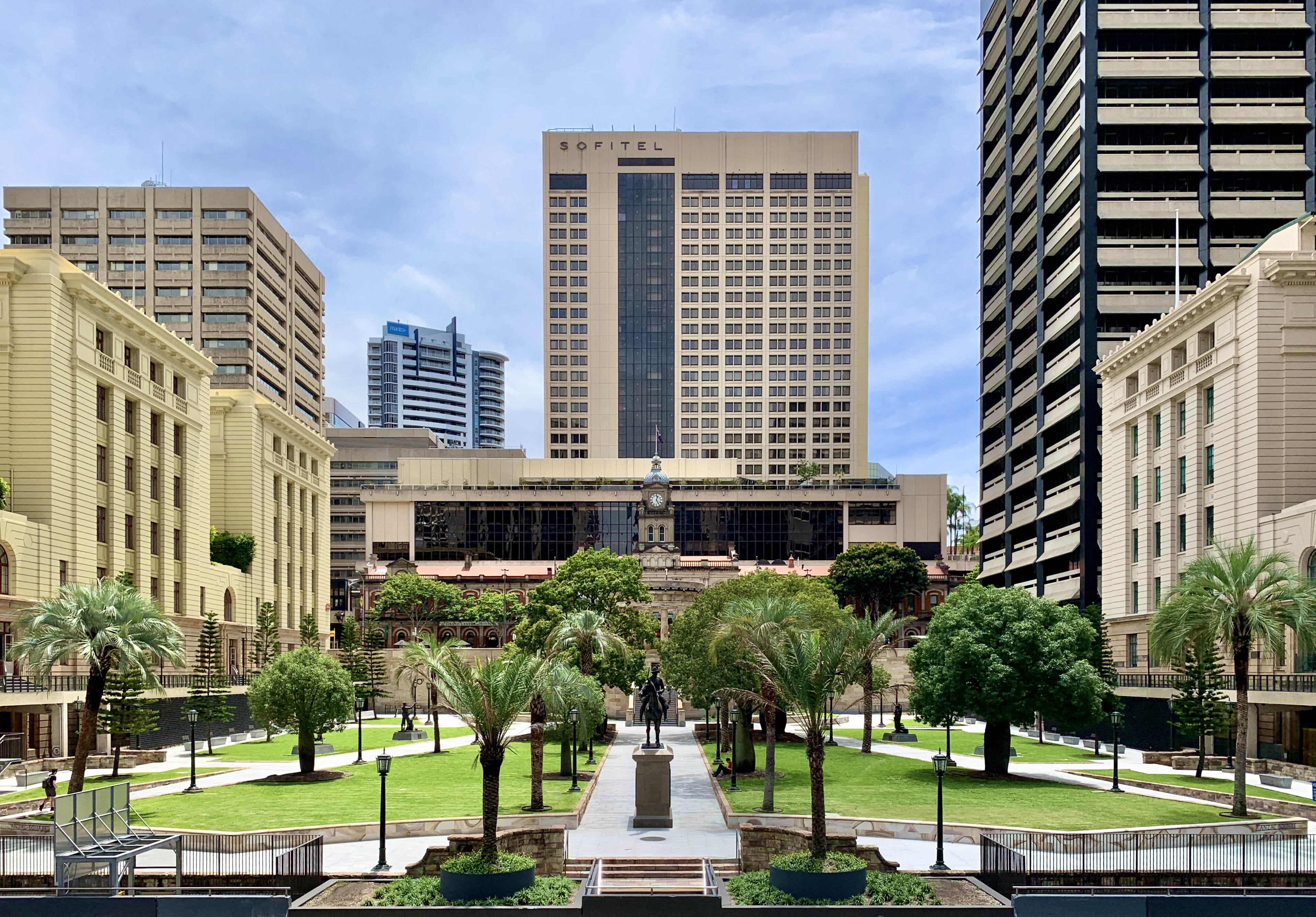 ANZAC Square, Brisbane in February 2020